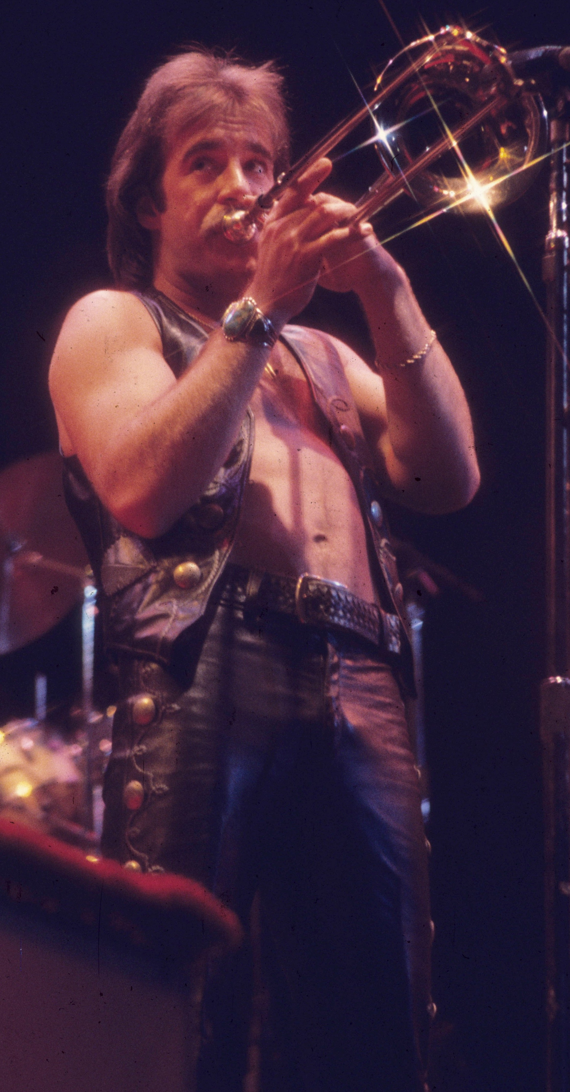 James Pankow performing in concert.